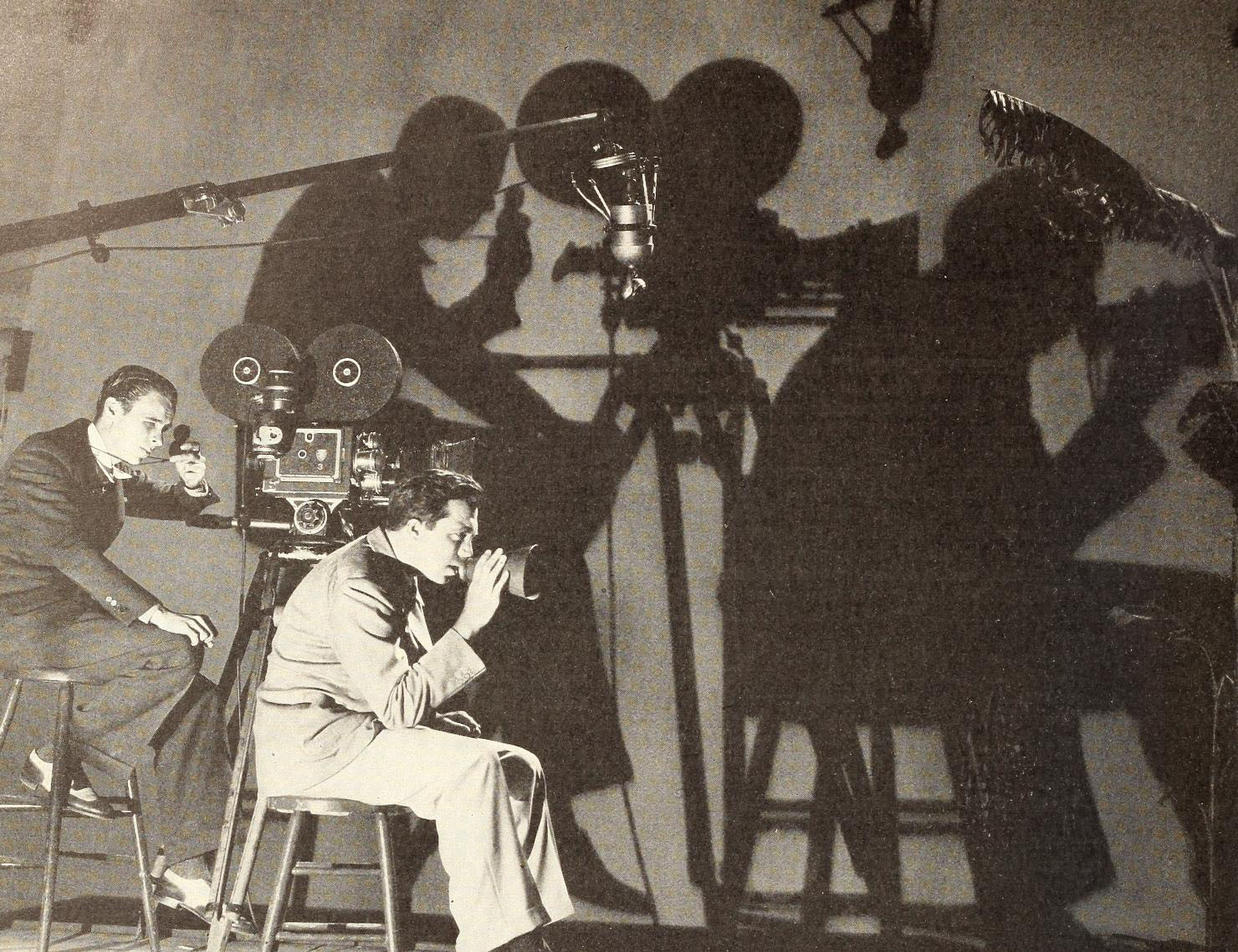 Publicity shot of King Vidor and Edward Cronjager on the 1932 film, Bird of Paradise Other information for an explanation of the copyright for information regarding public domain